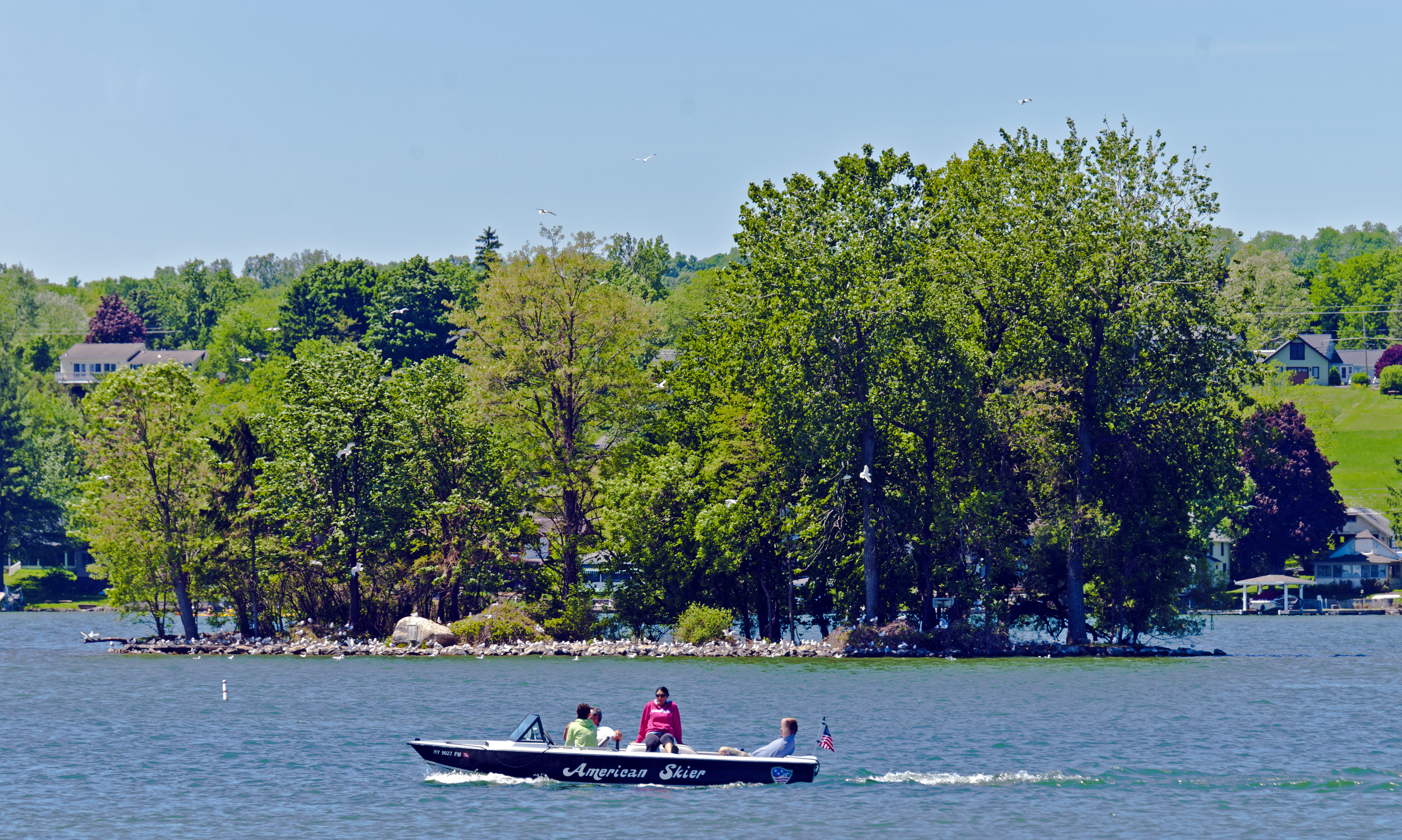 Squaw Island, often said to be New York's smallest state park, seen from docks extending into Canandaigua Lake. It is one of two islands in the 11 Finger Lakes.